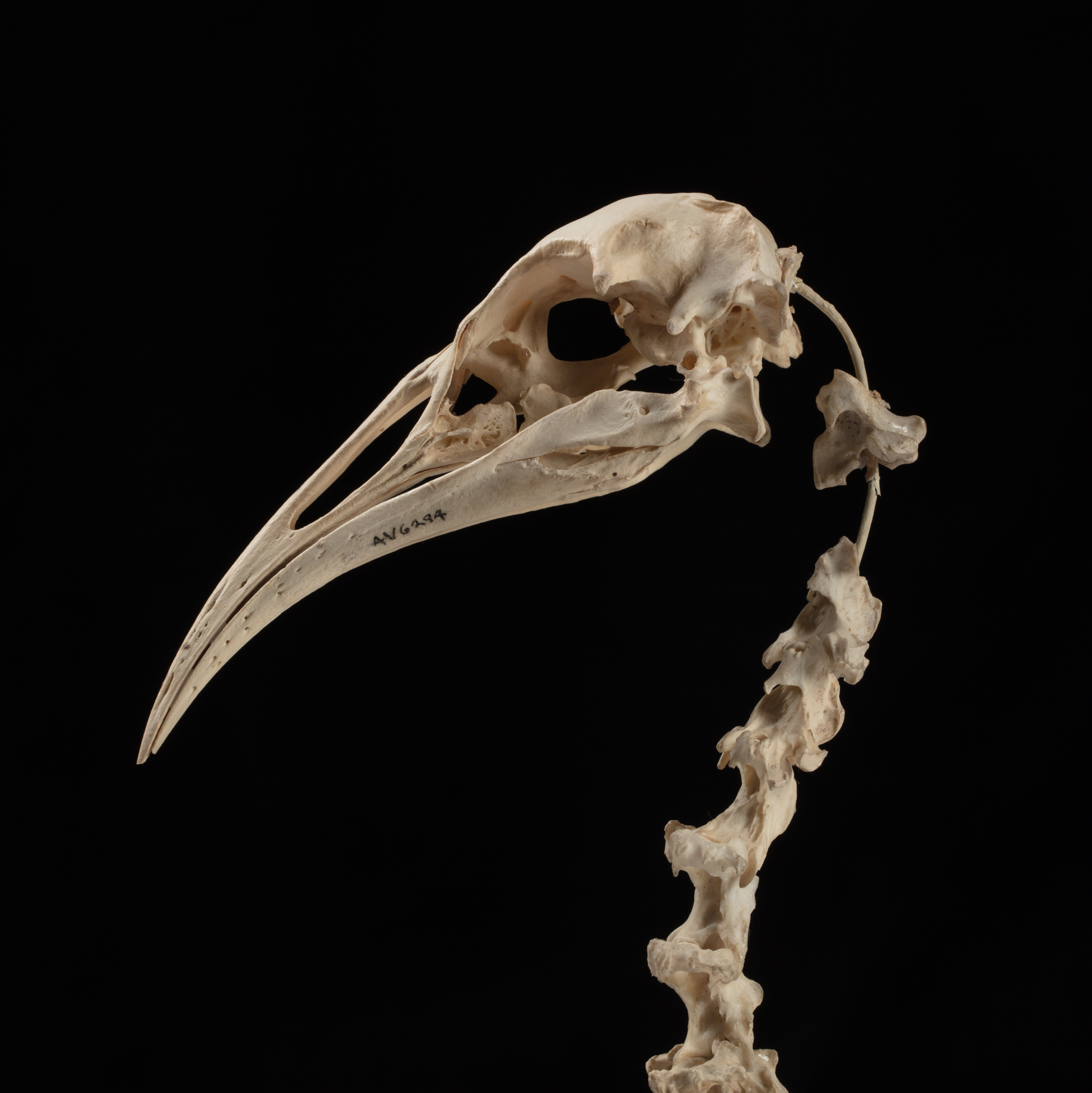 Diaphorapteryx hawkinsi, Chatham group: fossil bones